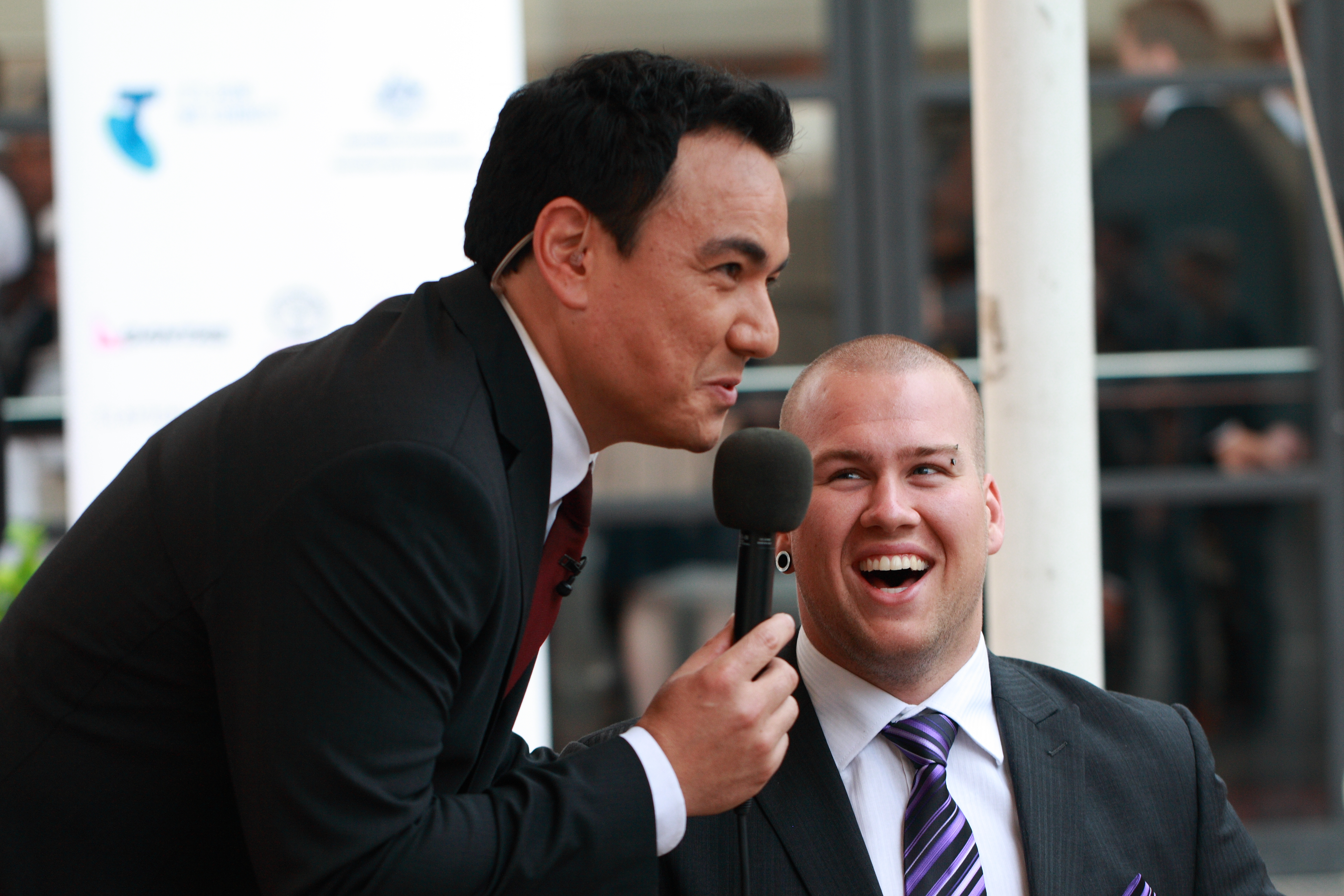 Australian Paralympian of the Year 2012 ceremony at the Hordern Pavilion, Sydney, Australia.